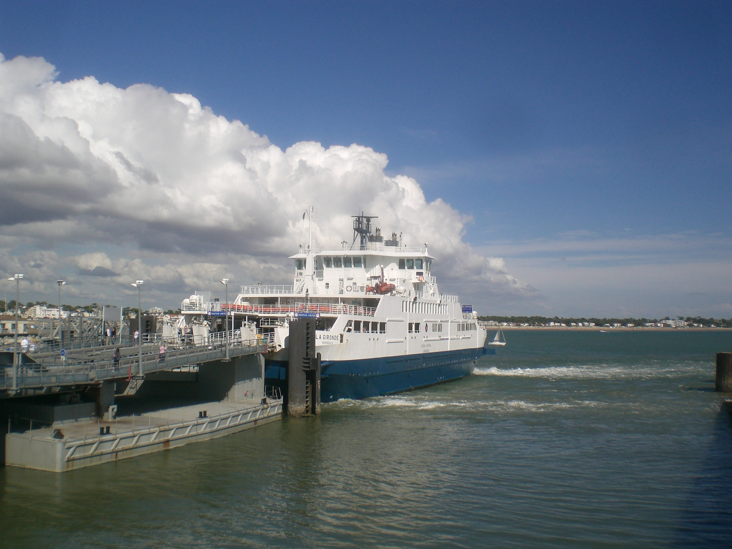 ferry in Royan on the way to Le Verdon-sur-Mer (Médoc)